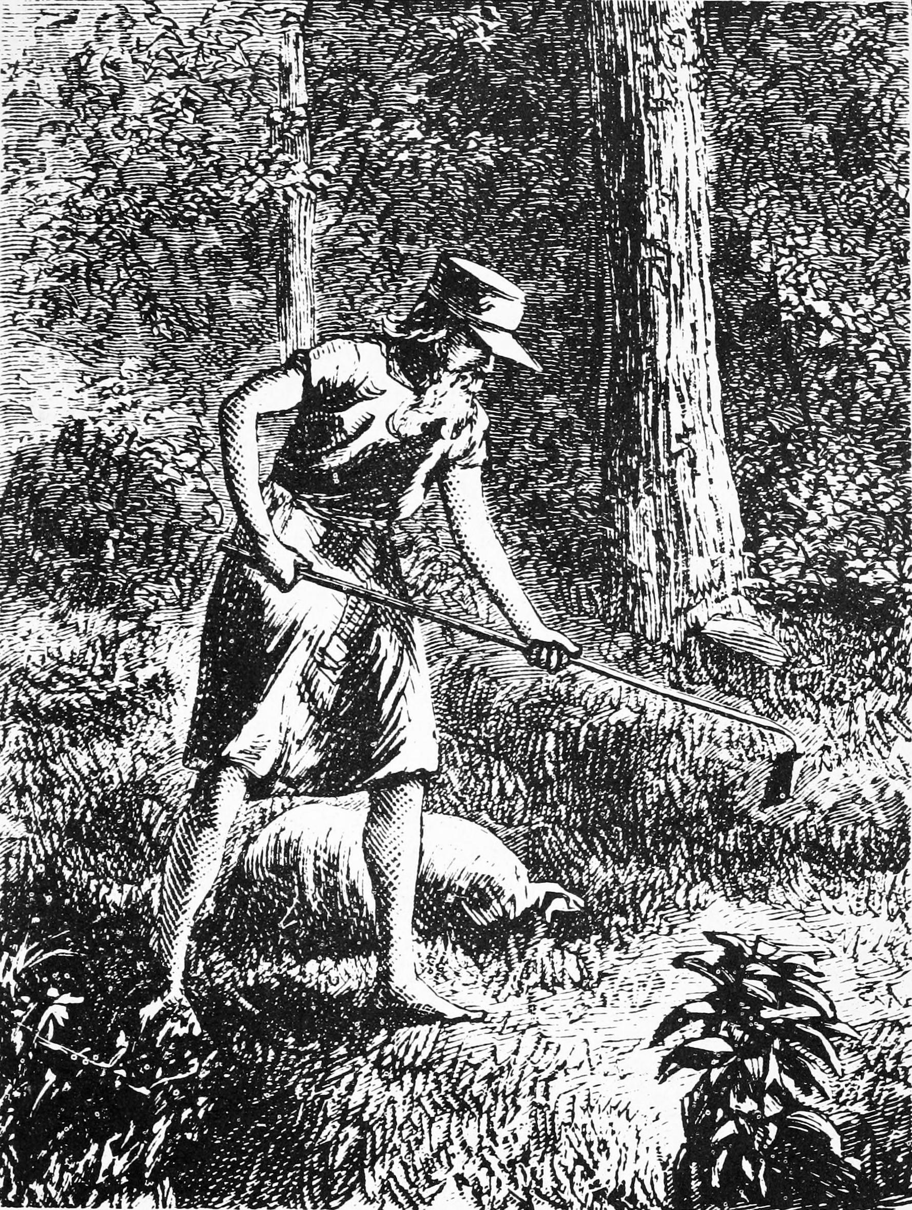 An etching of John Chapman, aka Johnny Appleseed, from Harper's New Monthly Magazine in 1871. According to Pollan in The Botany of Desire, the engraving depicts him "as a sinewy, barefoot figure with a goatish beard," wearing "something that looks . . . like a toga or a dress."